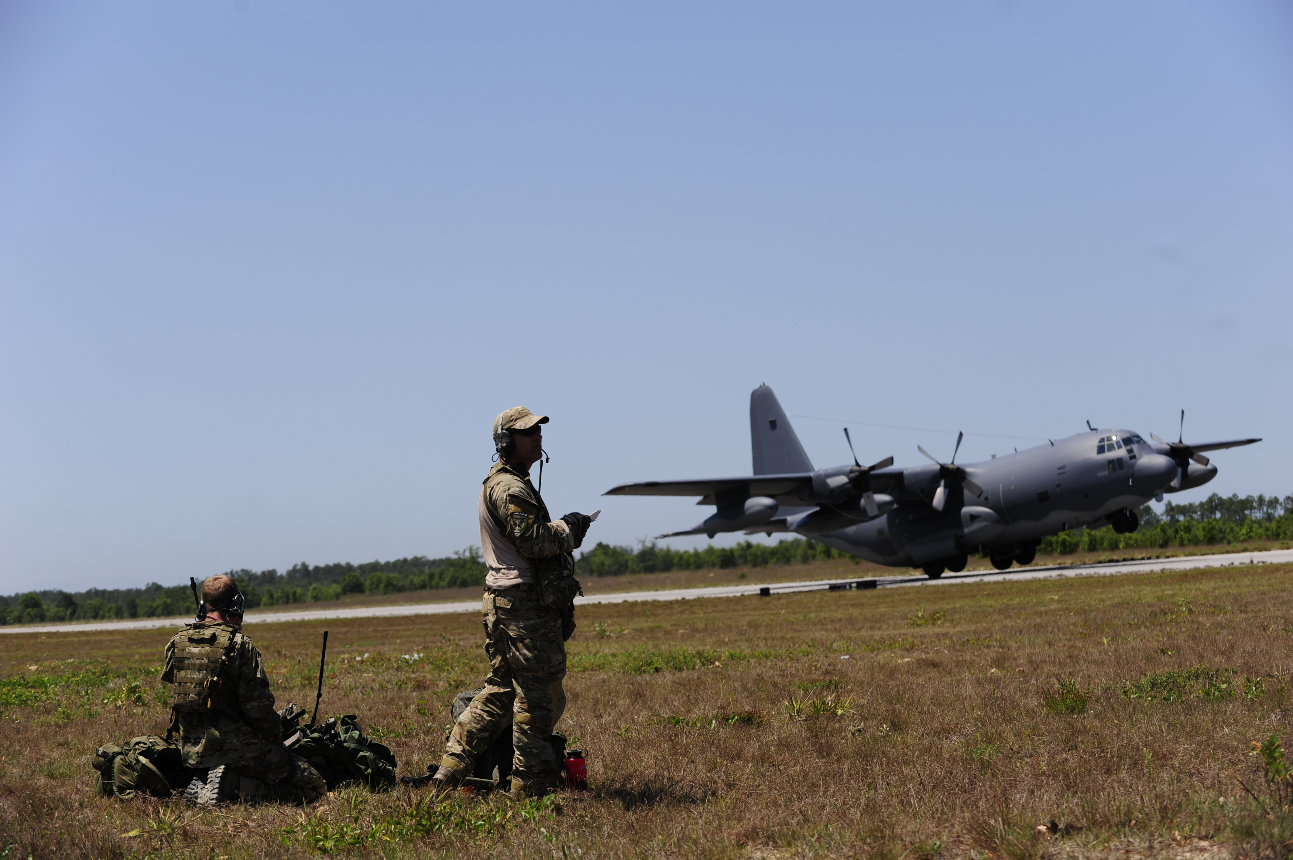 Combat controllers from the 21st Special Tactics Squadron, scan the runway as a 9th Special Operations Squadron MC-130P takes off, Field 6, Eglin Air Force Base range, Fla., May 11, 2011. Operation Nimble Response is an exercise to hone humanitarian and disaster relief efforts. Close to 50 personnel from Head Quarters Air Force Special Operations Command, 1st Special Operations Wing, and 280th Combat Communications Squadron, in coordination with USAID, worked together to improve disaster response. (U.S. Air Force photo by Staff Sgt. Julianne M. Showalter/Released)